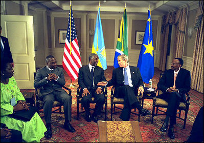 George W. Bush meets with Joseph Kabila of the Democratic Republic of Congo, left, Thabo Mbeki of South Africa, center, and Paul Kagame of Rwanda, right, at the Waldorf-Astoria Hotel in New York City.